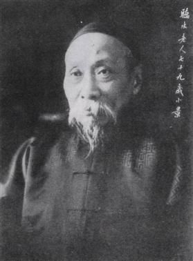 Chen Baochen (traditional